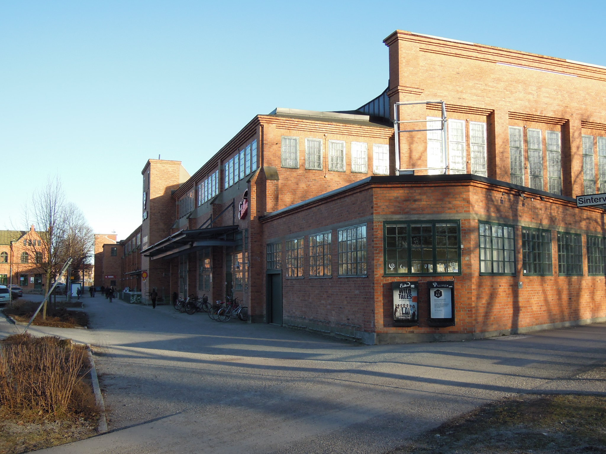 Culturen, cultural building in Kopparlunden, Västerås, Sweden. Earlier built as Emaus workshop by Asea (later renamed to ABB). March 2015.